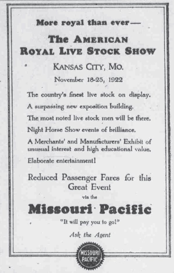 Ad from the The Jasper News, November 16, 1922